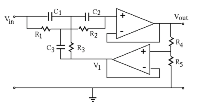 Active Twin T filter